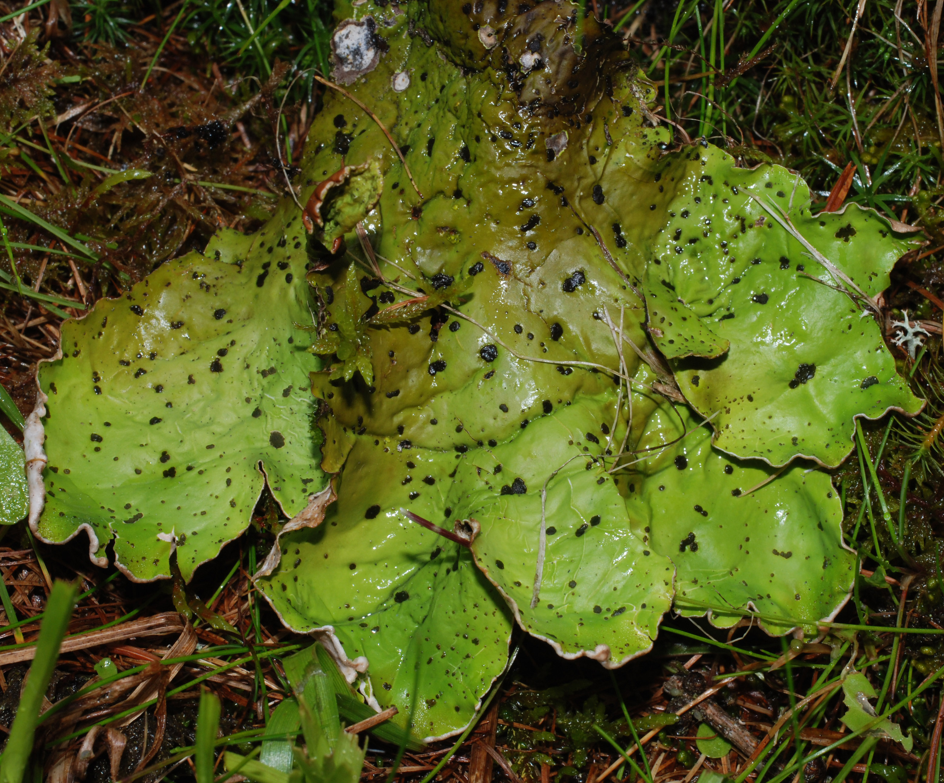 Peltigera aphtosa, Near Erlacher Hütte, Nockberge, Austria